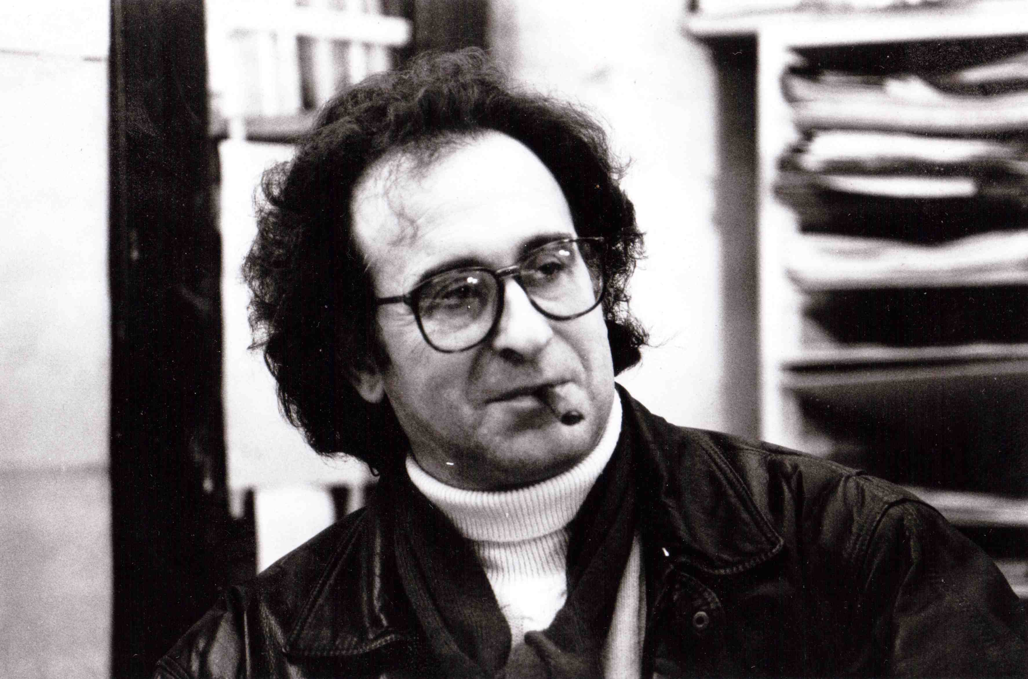 Donato Cascione